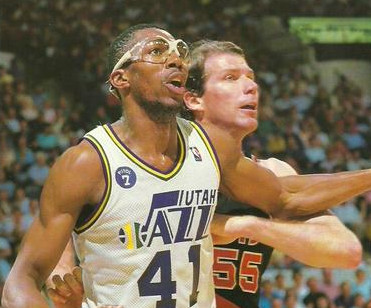 Professional basketball player Thurl Bailey